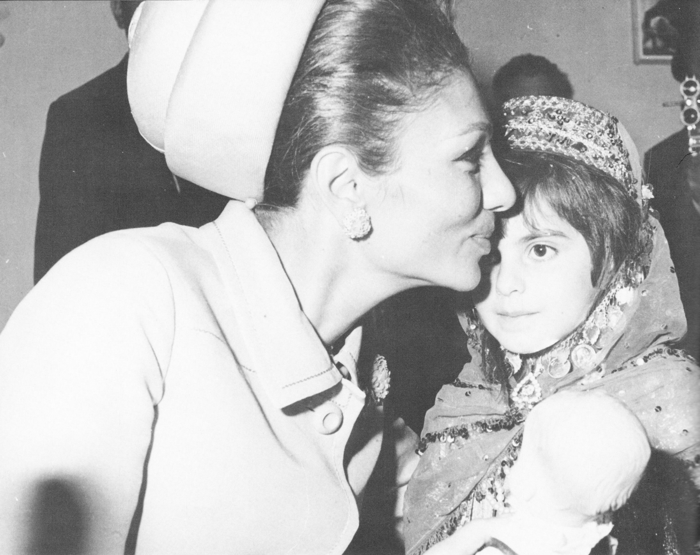 Shahbanu Farah Pahlavi visits Resayeh, Iran